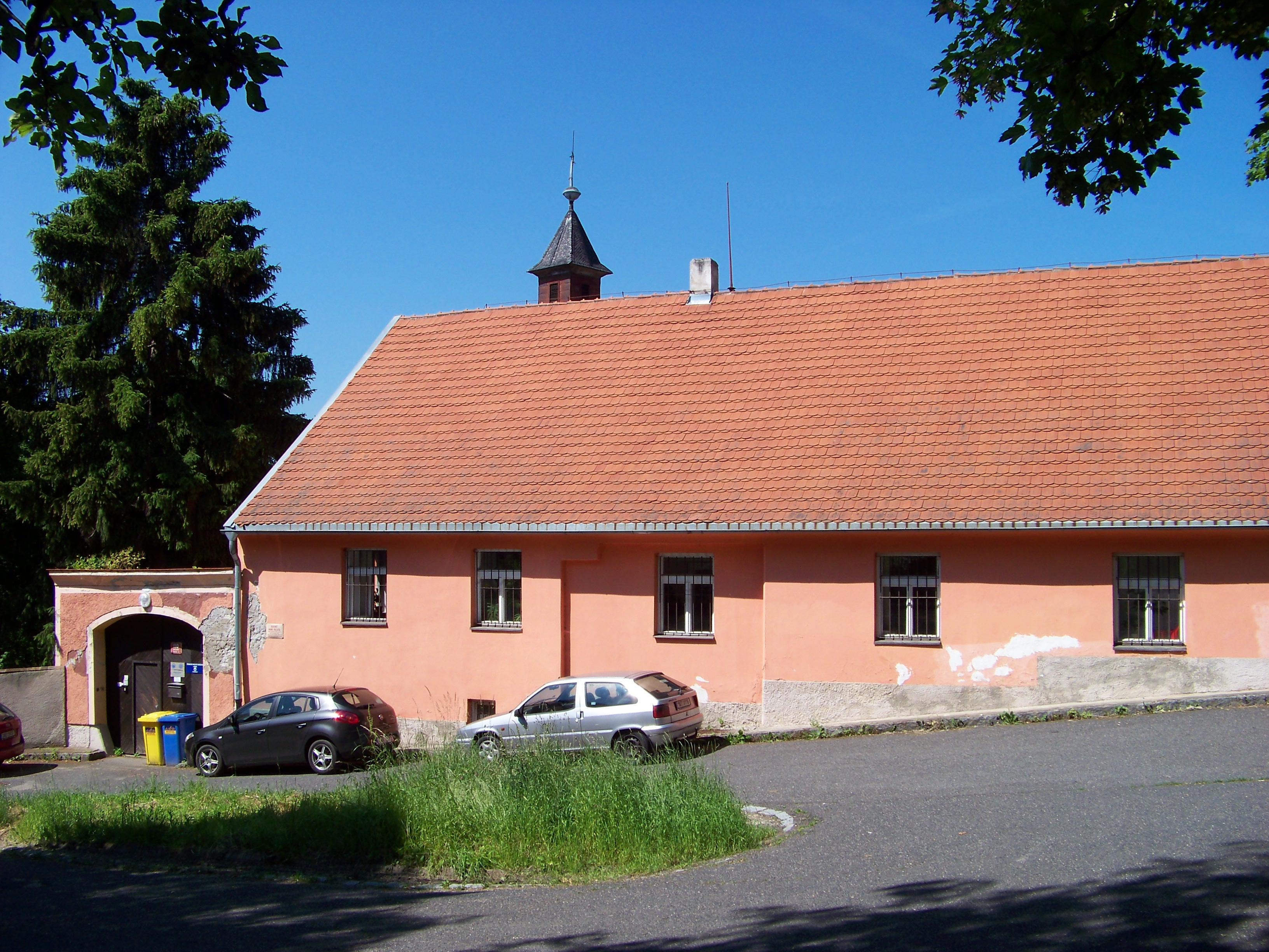 Prague-Smíchov. U Nesypky 110/28, Horní Palata homestead.